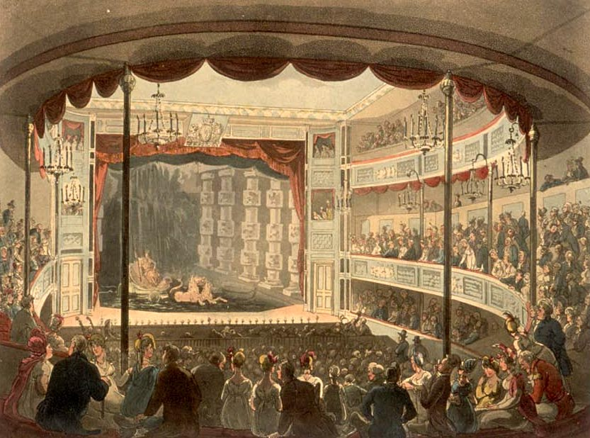 A performance at Sadler's Wells Theatre: This engraving was published as Plate 69 of Microcosm of London (1810) (see File:Microcosm of London Plate 069 - Sadler's Wells Theatre.jpg).